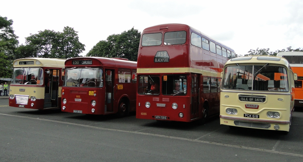 Ribble Preservation Group's Line-up at the Leyland Commercial Museum on 8th July 2012:- 811 (ARN 811C) - Leyland Leopard 665 (MAN 665D) - Leyland Leopard 1686 (NRN 586) - Leyland Atlantean 1036 (PCK 618) - Leyland Leopard